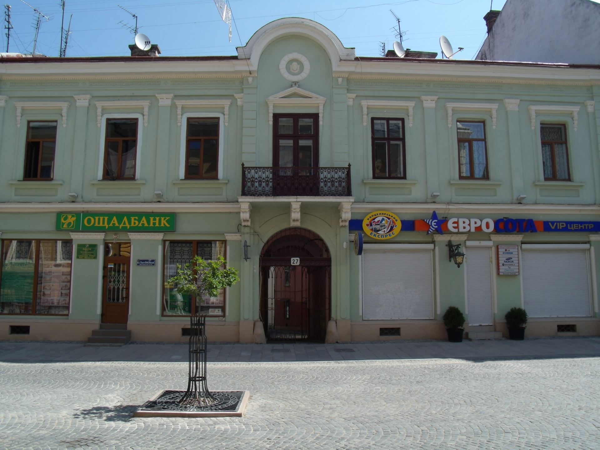 Chernivtsi, Kobylianska house 27